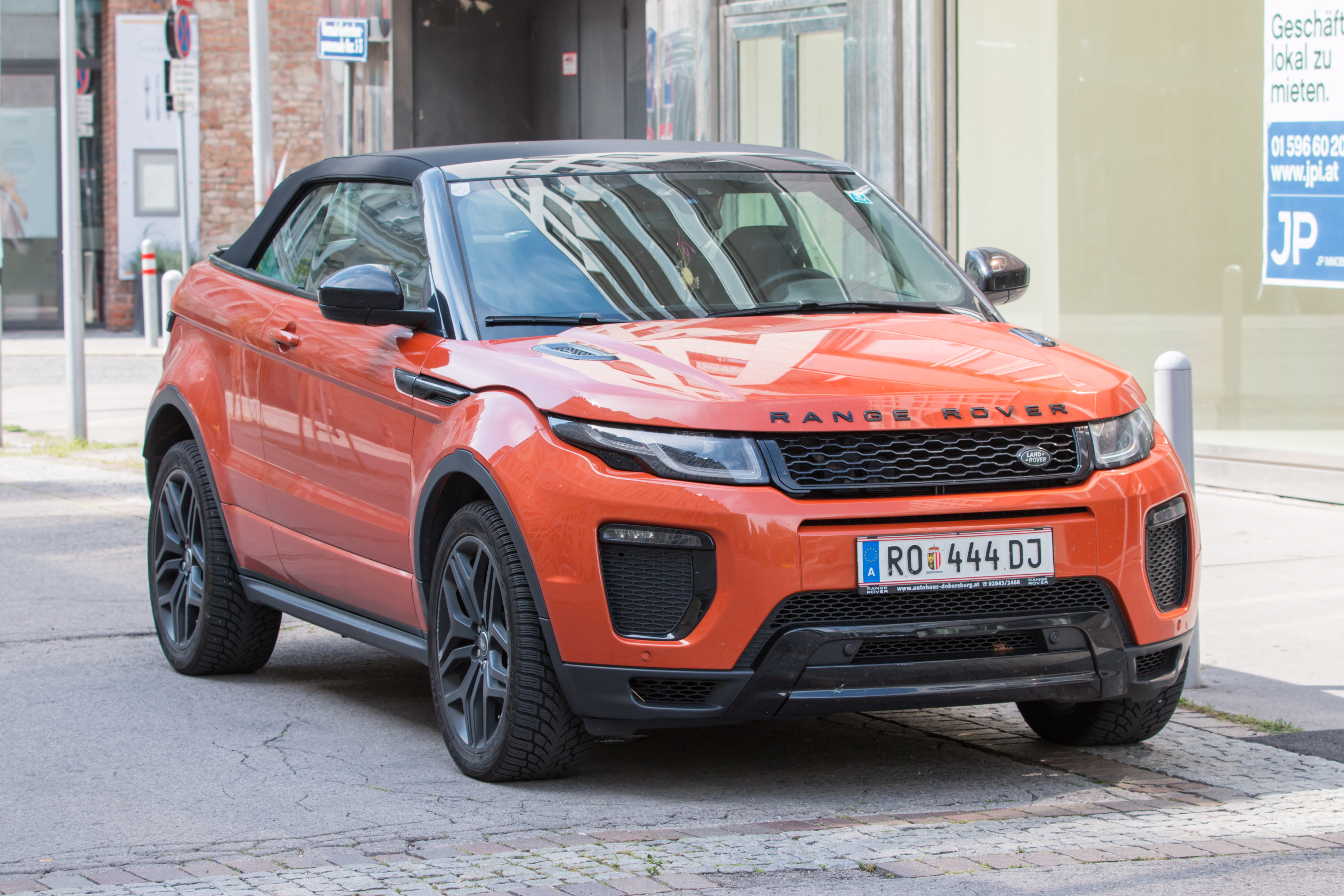 Range Rover Evoque